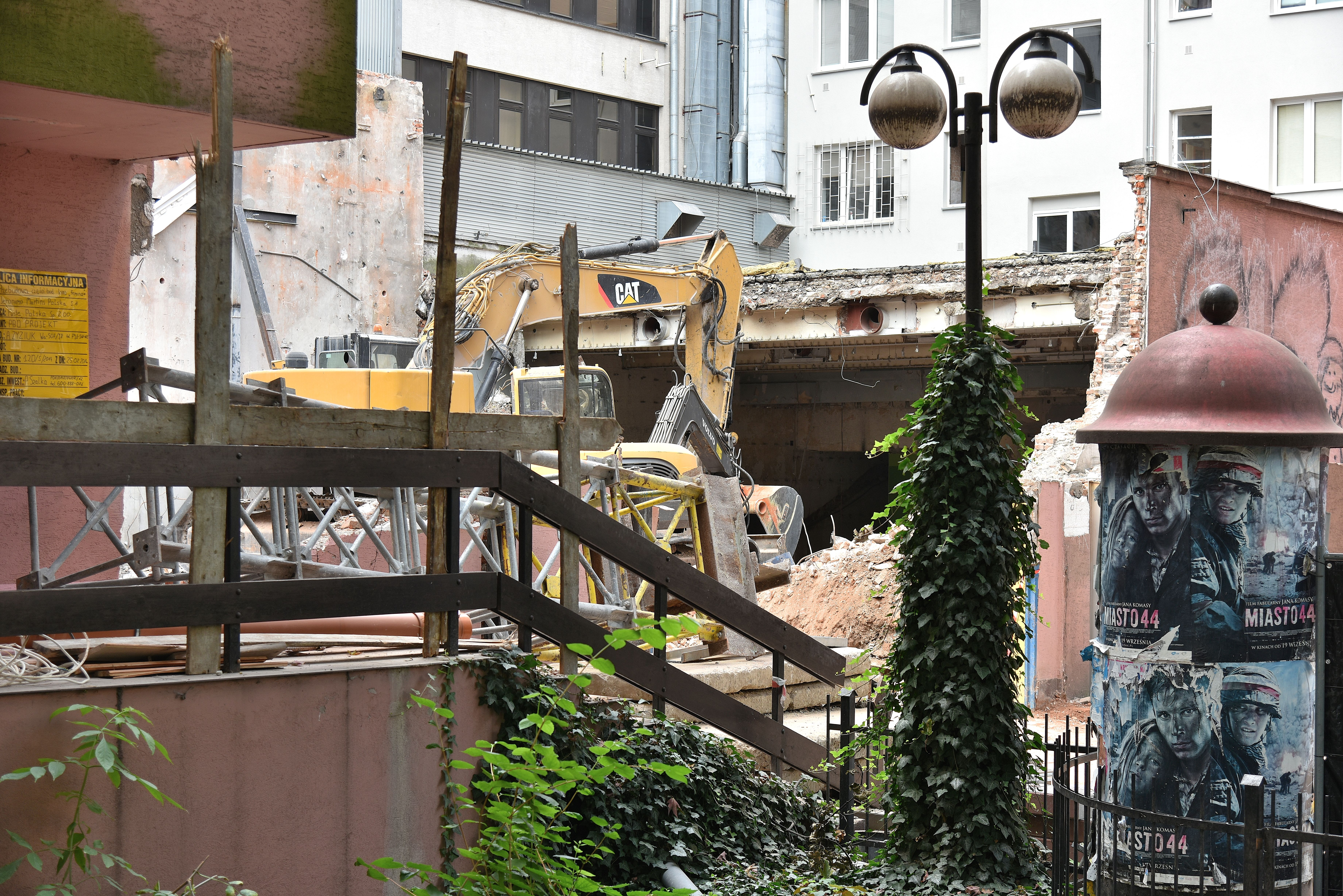 Demolition of Femina Cinema in Warsaw